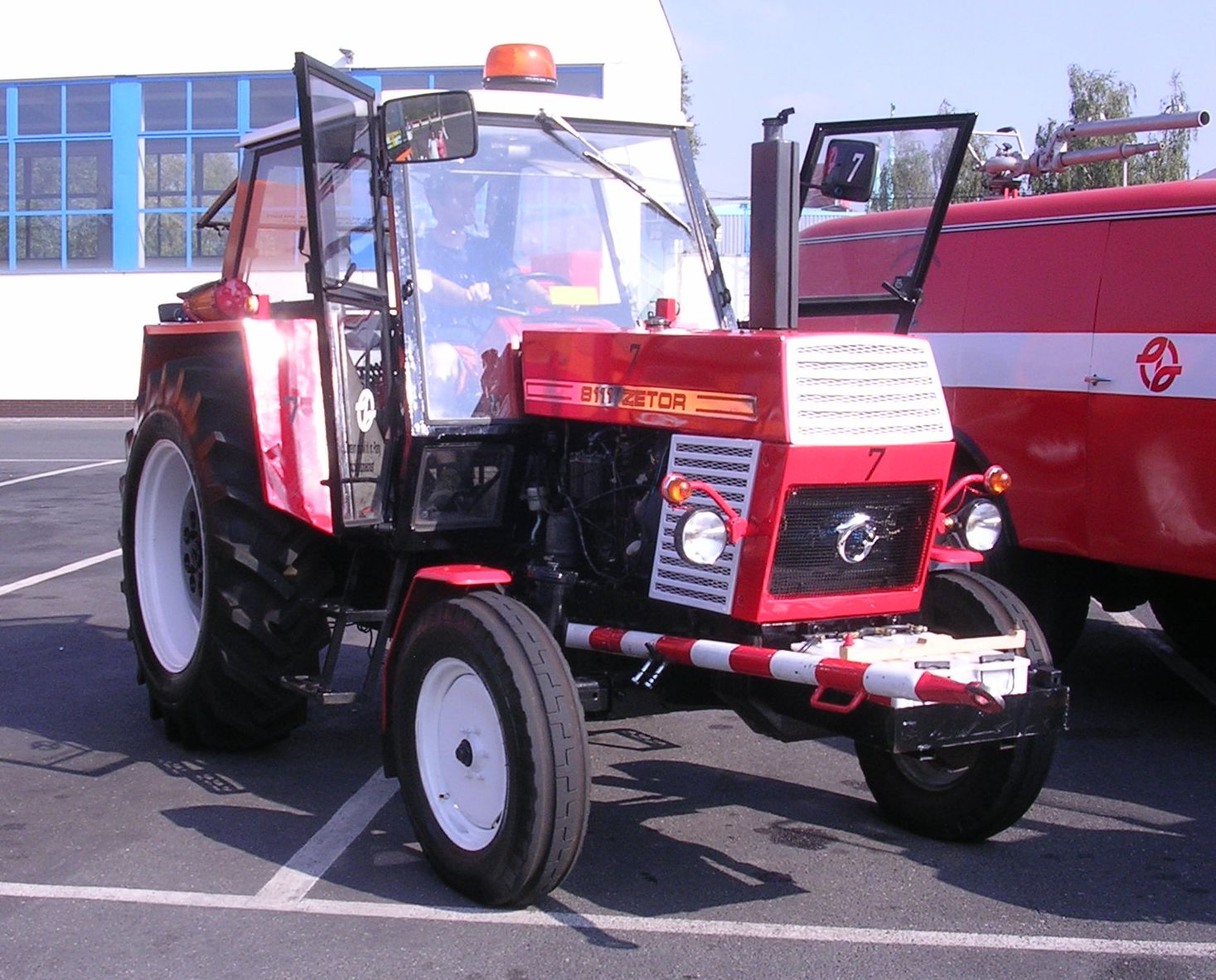 Řepy, Prague, the Czech Republic. Open Doors Day in Řepy bus depot. Zetor 8111 tractor of Prague DP. - Google Maps - Google Earth